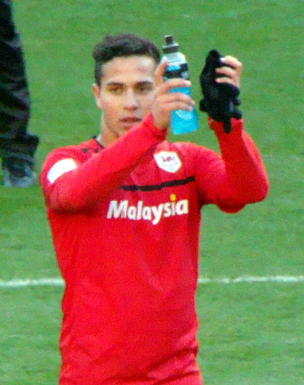 Swiss football player Kerim Frei playing for Cardiff City, October 2012.